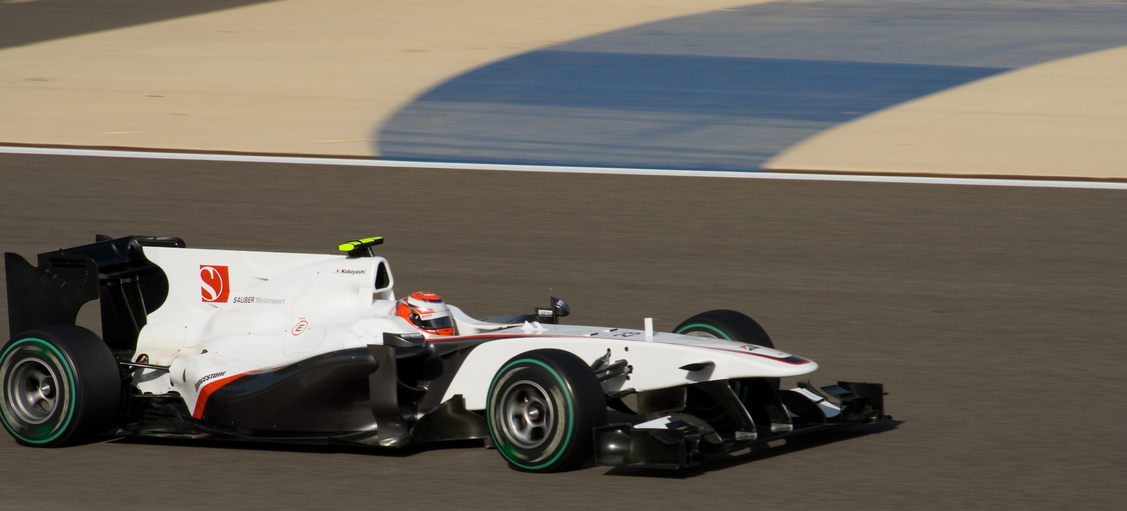 Kamui Kobayashi driving for Sauber at the 2010 Bahrain Grand Prix.